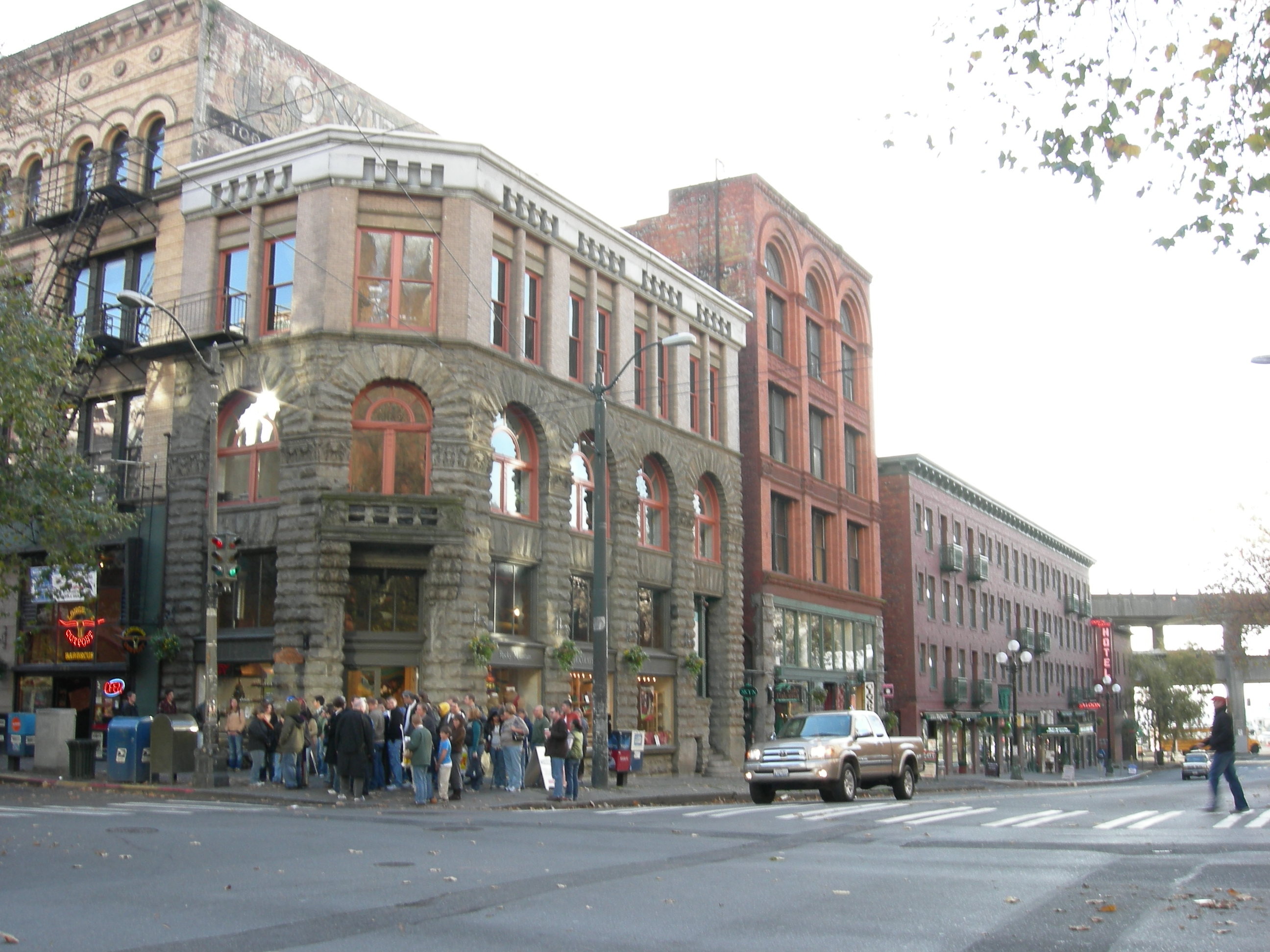 The Yesler Building (at left; built 1891; formerly Scandinavian-American Bank / Bank of Commerce Building), 95 Yesler Way (corner of First Avenue South), Pioneer Square neighborhood, Seattle, Washington, USA. In recent years it has held a series of restaurants, fast food joints, etc. For further information about this building see Summary for 95 Yesler WAY / Parcel ID 5247800055, Seattle Department of Neighborhoods. However, that article is almost certainly mistaken in saying that the top floor was added circa 1895. It is missing in this photo published in 1900 in a book whose images all appear to have been recent at the time. The view here looks roughly west by southwest, down Yesler Way. Also visible are (left to right) the Schwabacher Building (which surrounds the Yesler Building on two sides), the Pioneer Square Hotel, the Bedford Hotel Building (1 Yesler Way), and the Alaskan Way Viaduct.